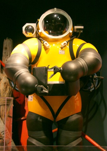 Shipwreck Museum at Whitefish Point.